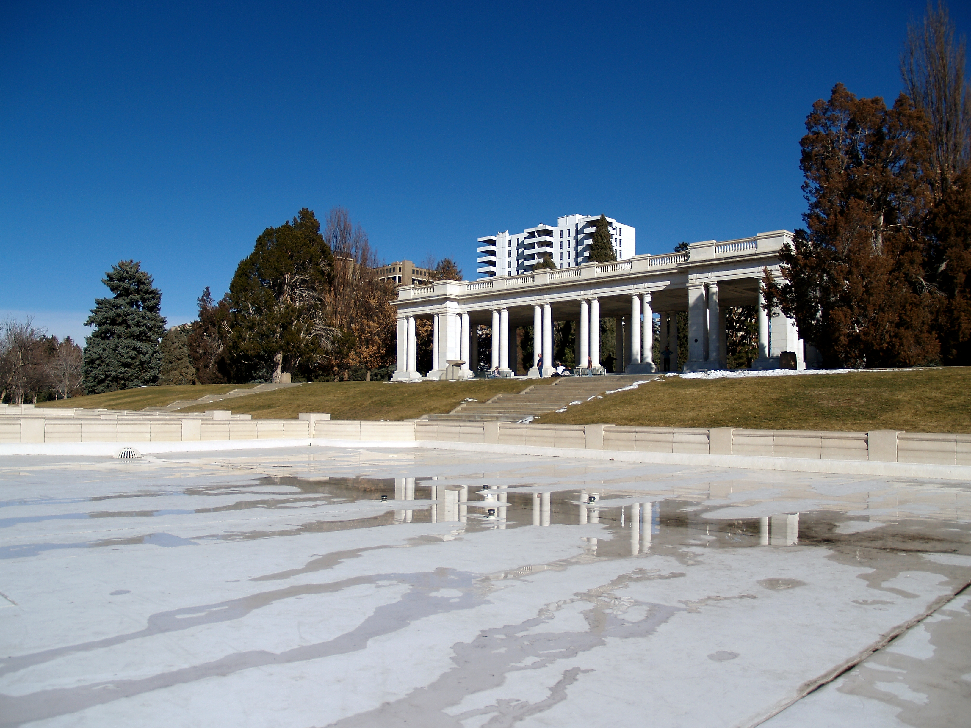 Denver's Cheesman Park in the winter.